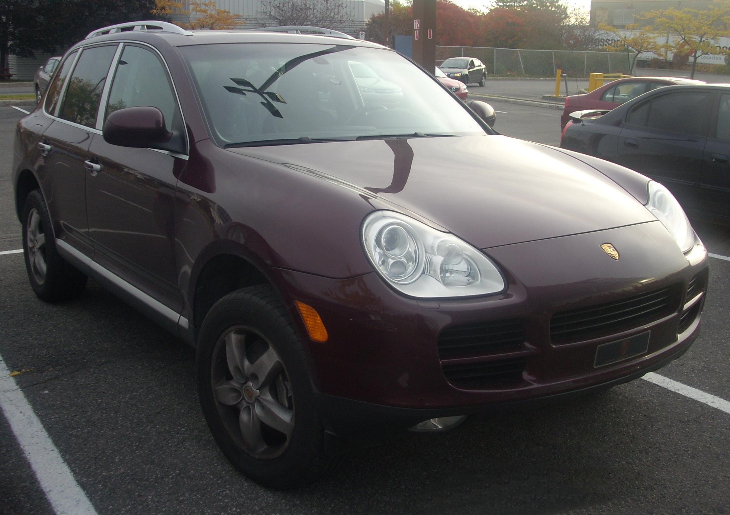 2003-2006 Porsche Cayenne photographed in Montreal, Quebec, Canada.